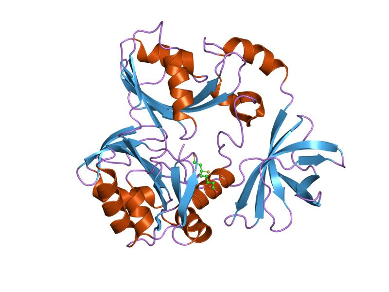 Cartoon representation of the molecular structure of protein registered with 1wor code.